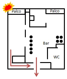 Kiss nightclub fire diagram showing the origin of the fire and the escape routes.